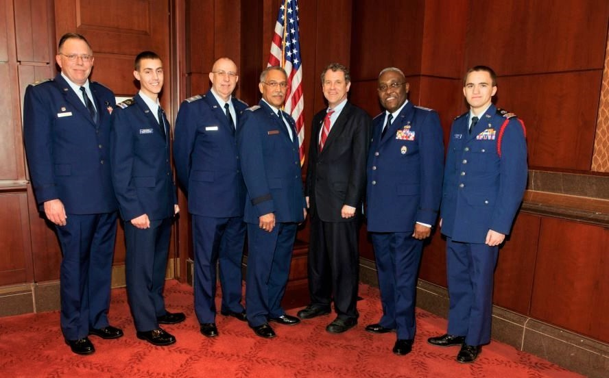 Maj Paul Bronsdon, C/Maj Joshua Schoettelkotte, Col Gregory Mathews, Maj Gen Charles Carr, Senator Sherrod Brown (D-OH), National Chaplain Colonel J. Delano Ellis, C/Capt Jared Mohler. Source: U.S. Senate Photographic Studio.